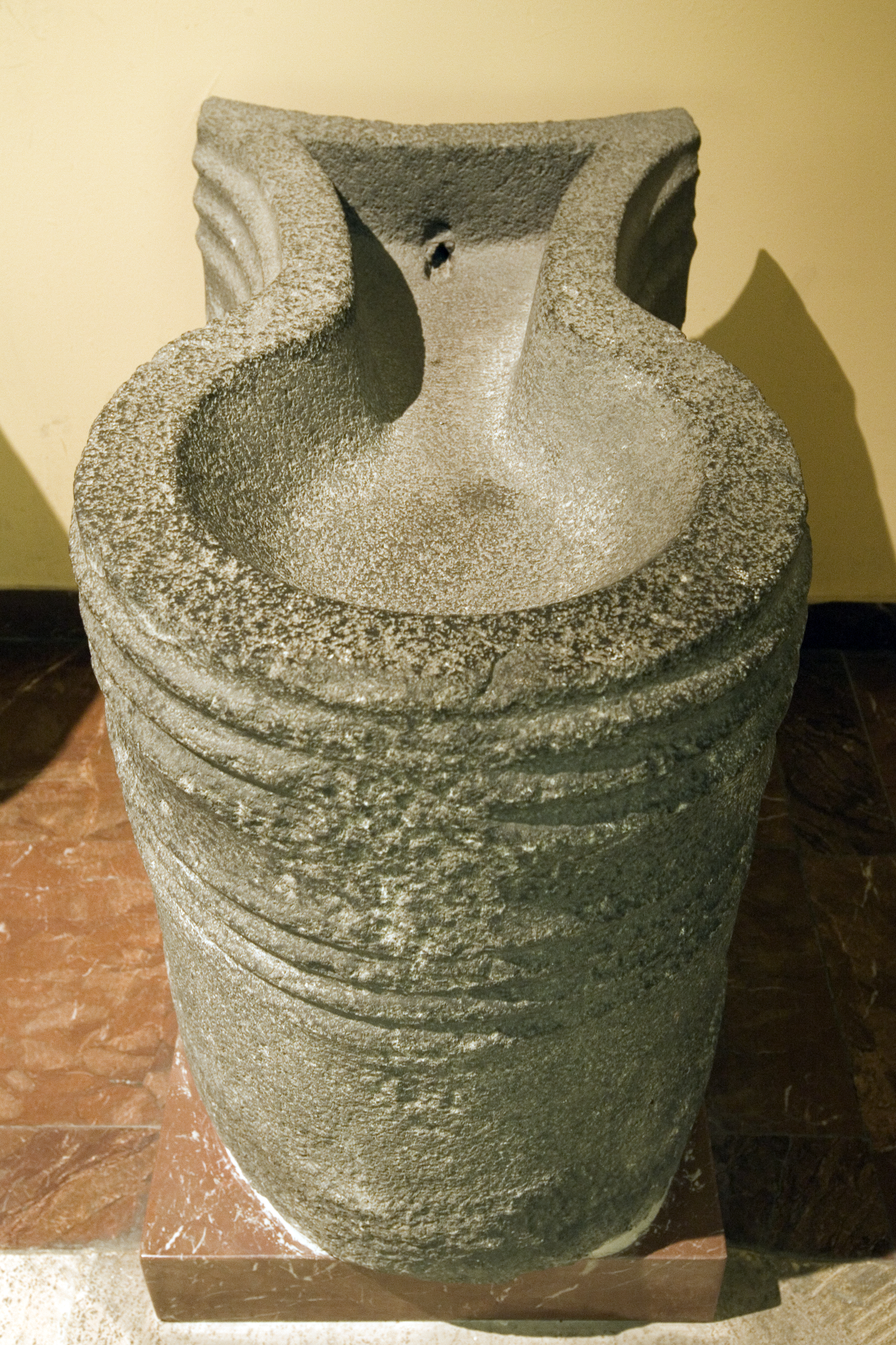 Offering table from God Khaldi temple in Rusahinili. Altar Urartu.